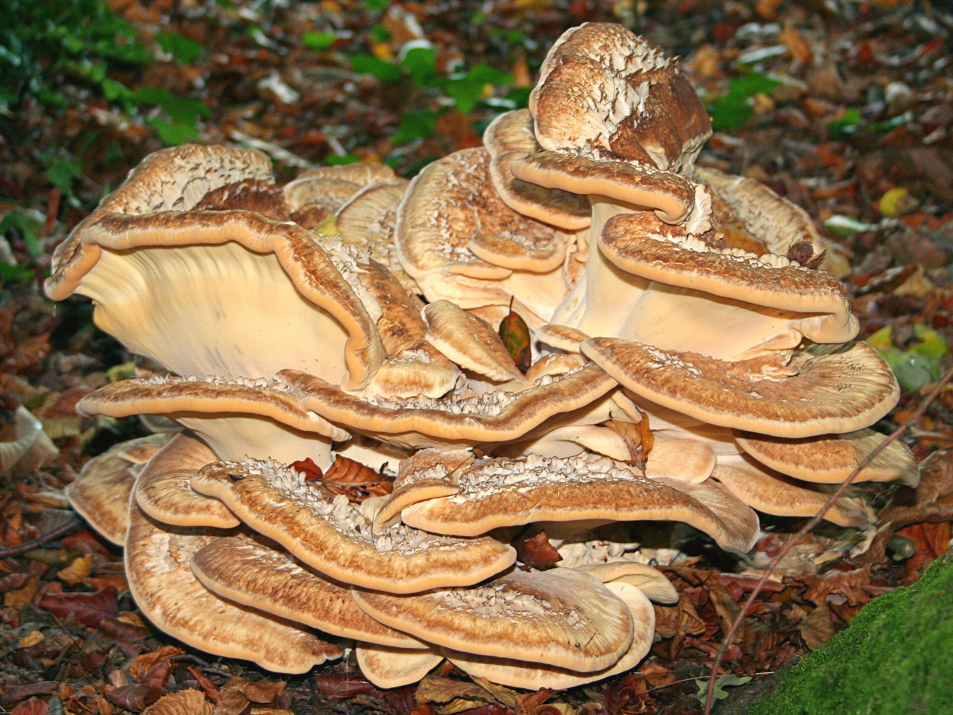 Giant polypore, Houyet, Belgium